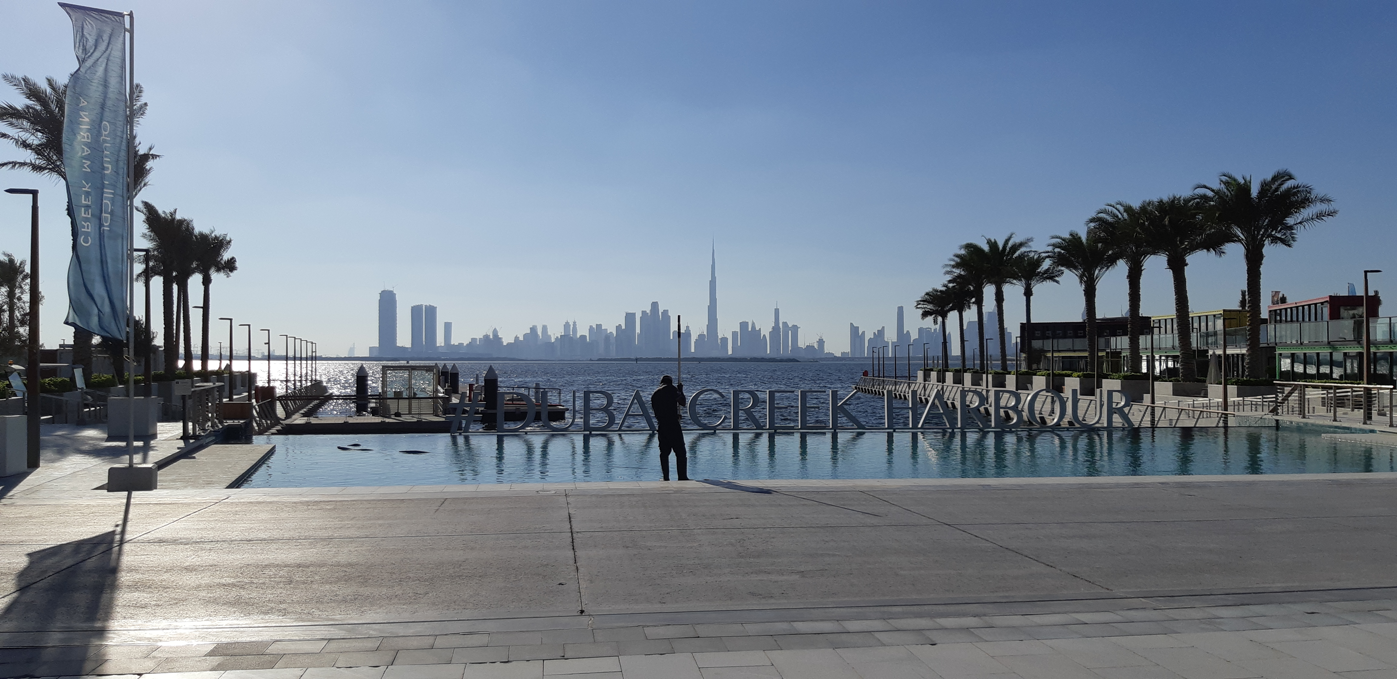 Esplanade of Dubai creek harbor facing Burj Khalifa, next to the children's park and close from to the future C18 Taxidrone station established by the Ministry of Transport (RTA) to serve the coast side.